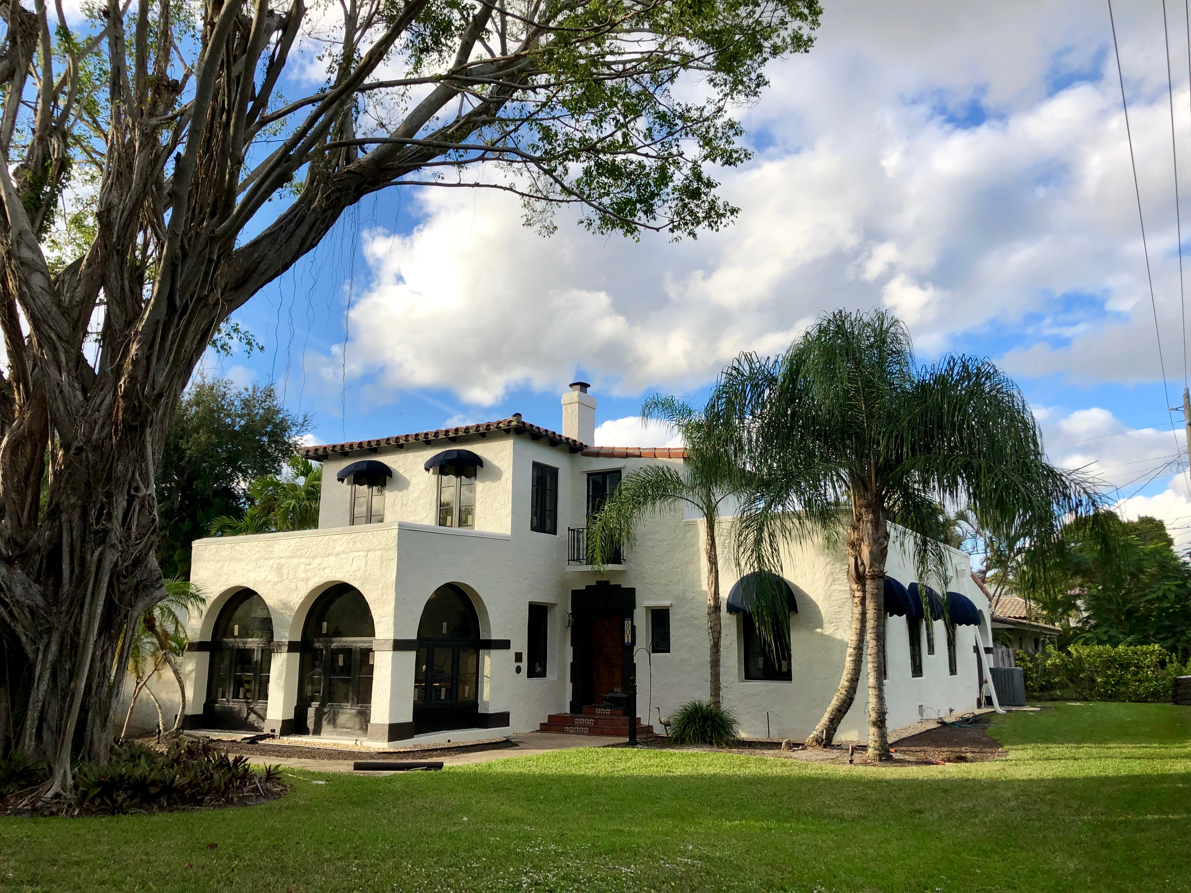 Fred Aiken House, designed by Architect Addison Mizner and built in 1926